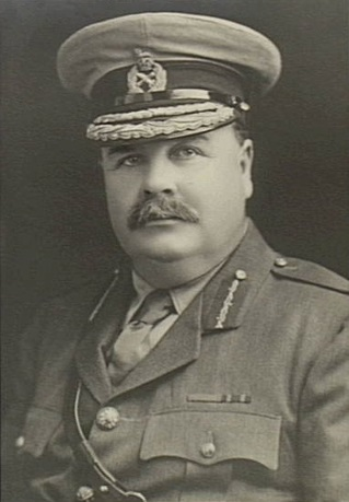 AWM Photo H05751 of Brigadier General Victor Sellheim